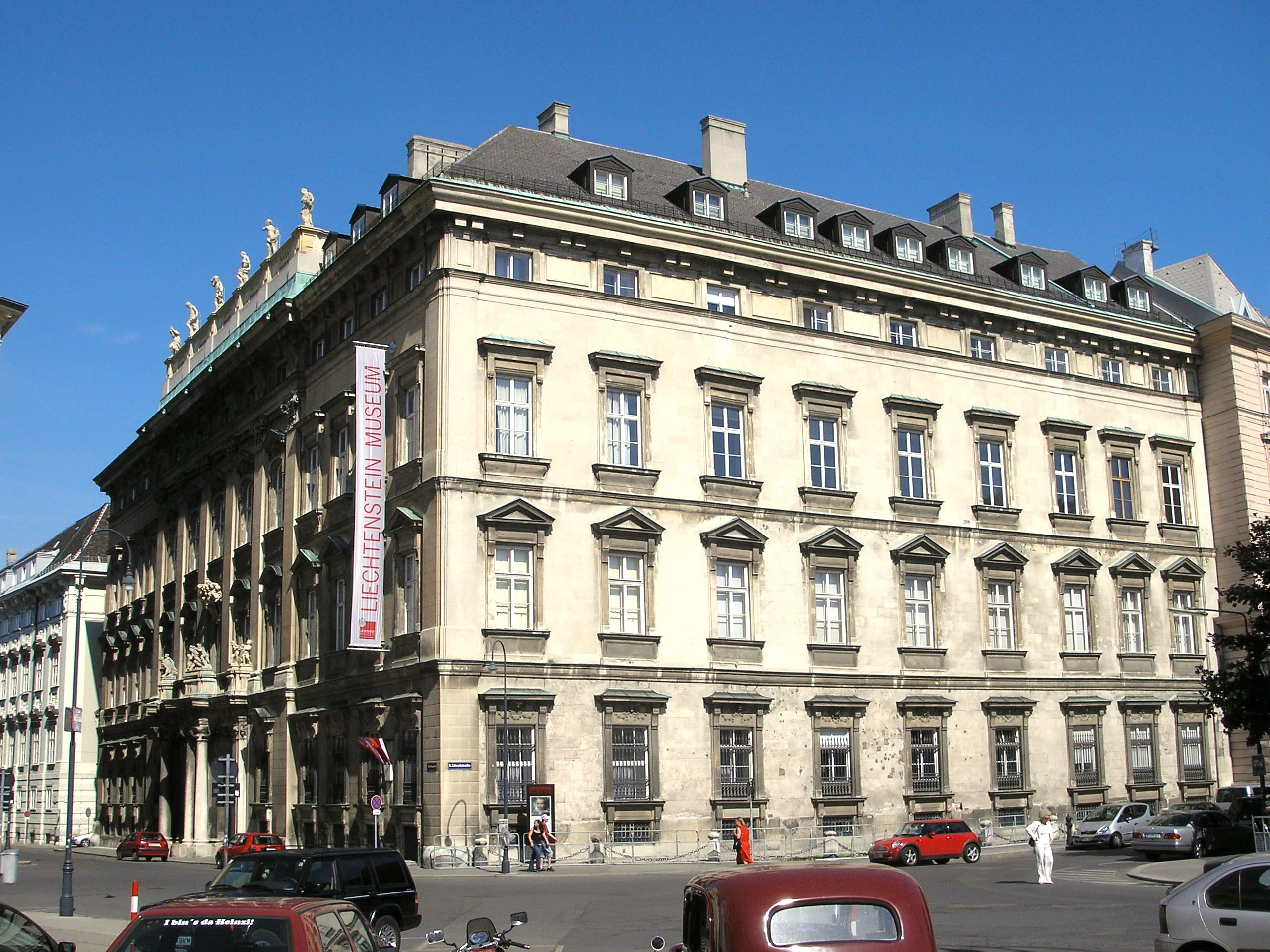 Palais Liechtenstein, in Vienna next to the Burgtheater. Owned by the princely Liechtenstein family. This is the Winterpalais or Stadtpalais (Winter-palace or city-palace), the other Palais Liechtenstein in the 9th district is the Gartenpalais (garden-palace).